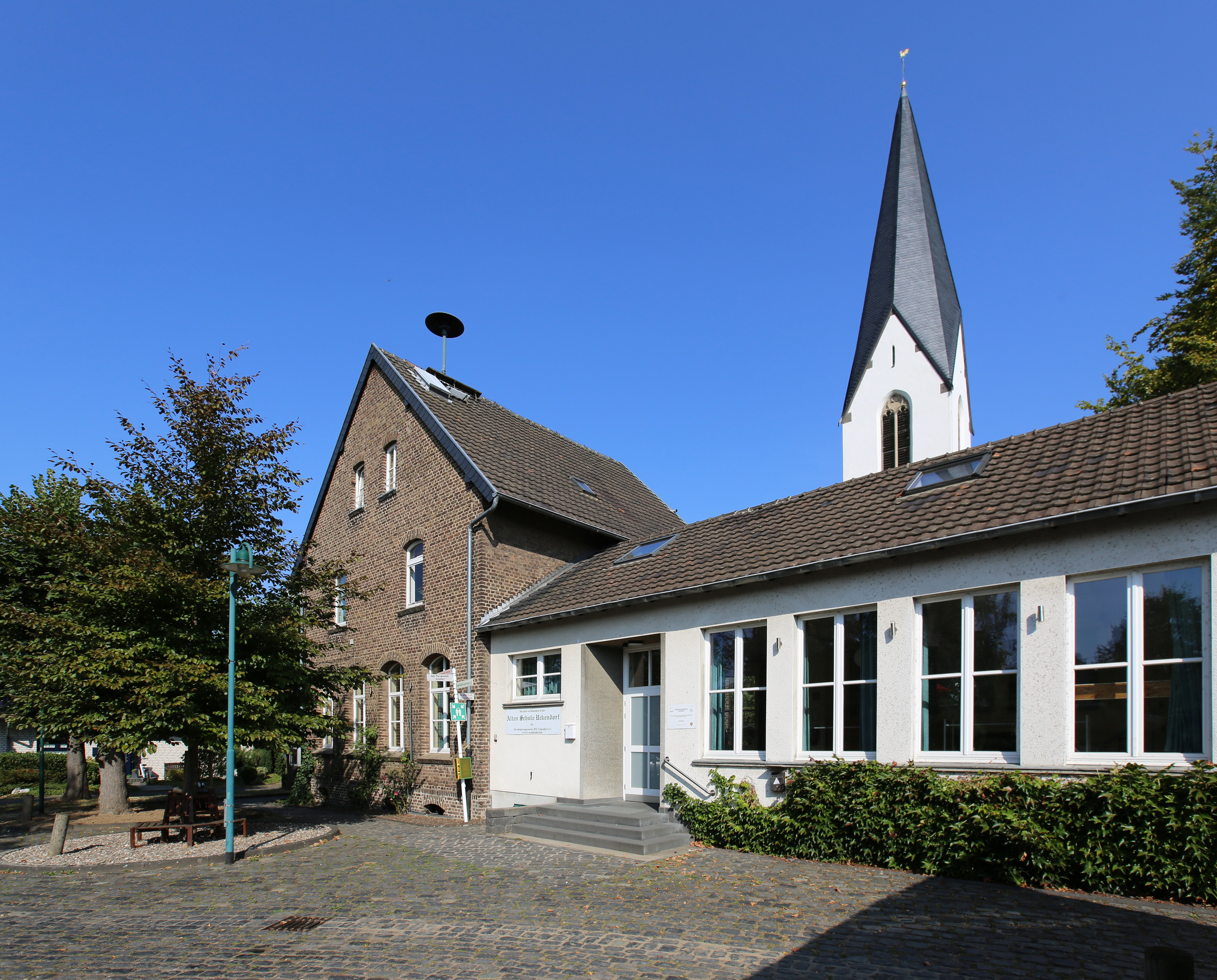 Community center Uckendorf, Germany